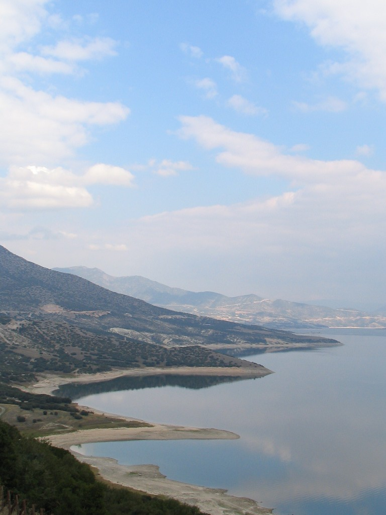 Southern shore of Polyfytos lake, artificial lake of Aliakmonas river, Kozani prefecture, Greece. The city of Servia is visible in the background.